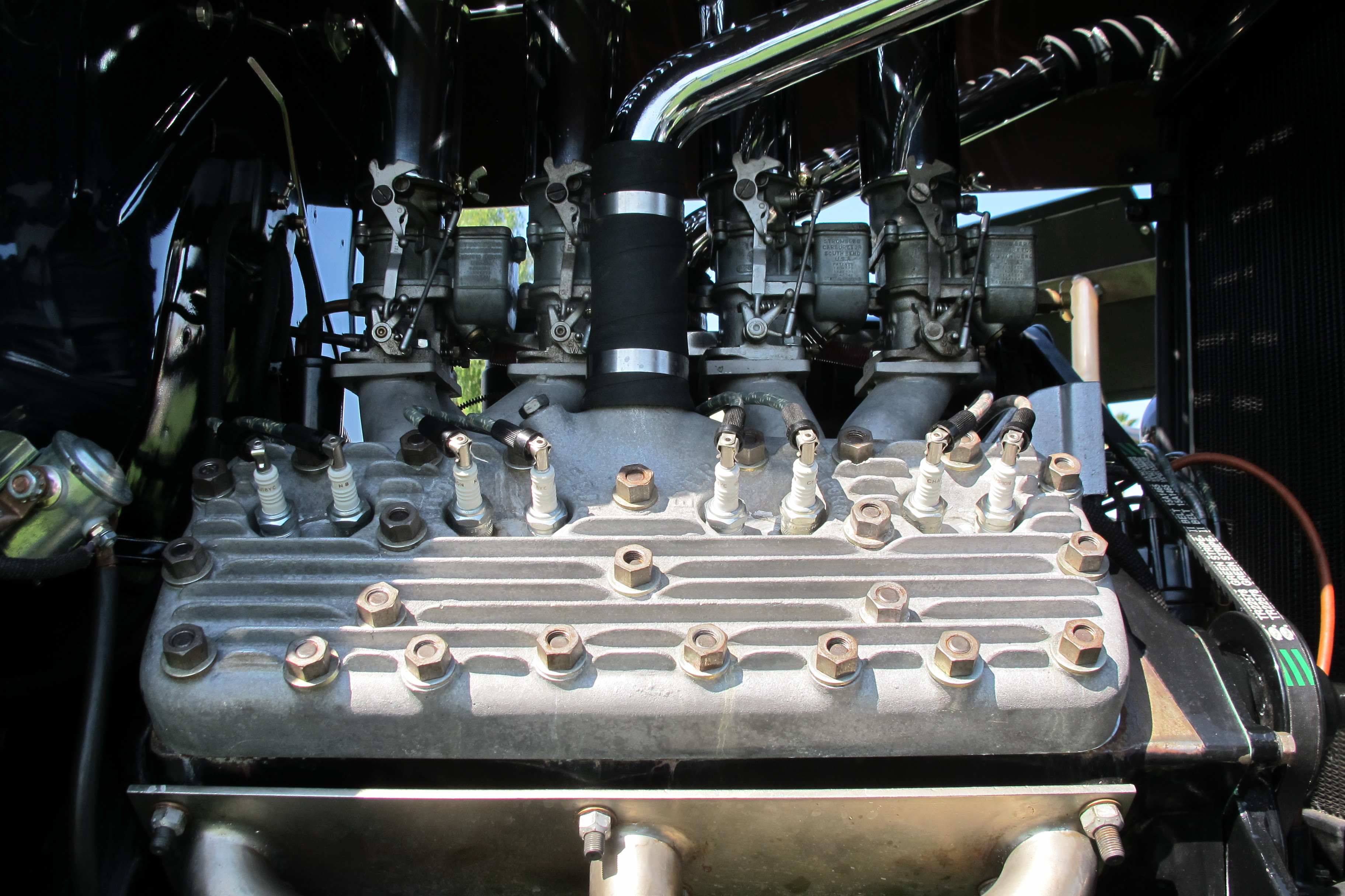 Ford flathead V-8 with a aftermarket twin plug cylinder head & special manifold with Stromberg carbureators